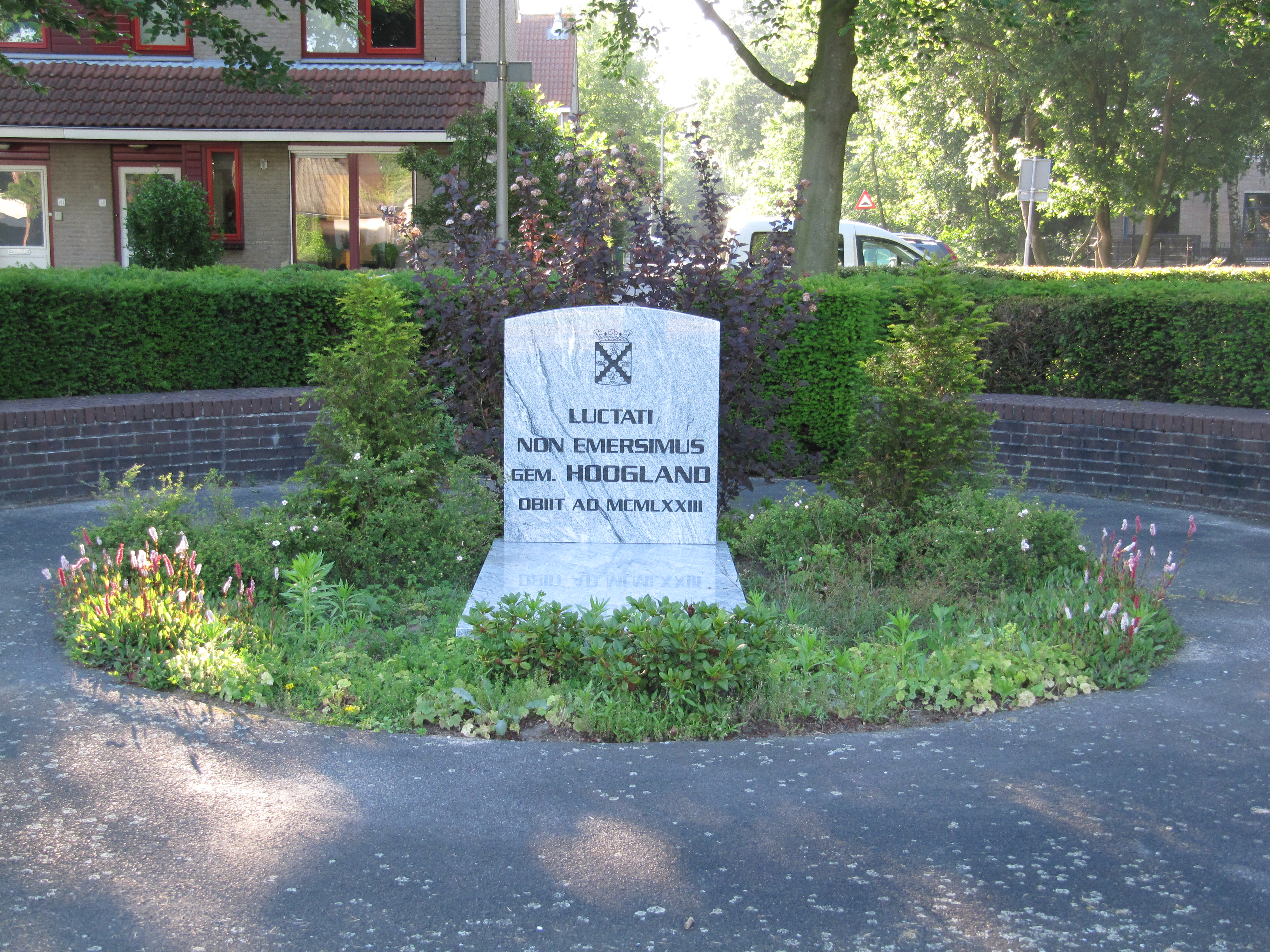 Tombstone Municipality of Hoogland on the Zevenhuizerstraat in Hoogland, municipality of Amersfoort, The Netherlands